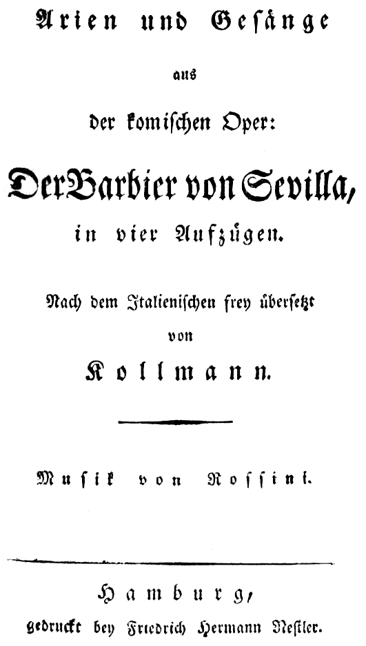 Rossini - Der Barbier von Sevilla - titlepage of the libretto - Hamburg ca 1820